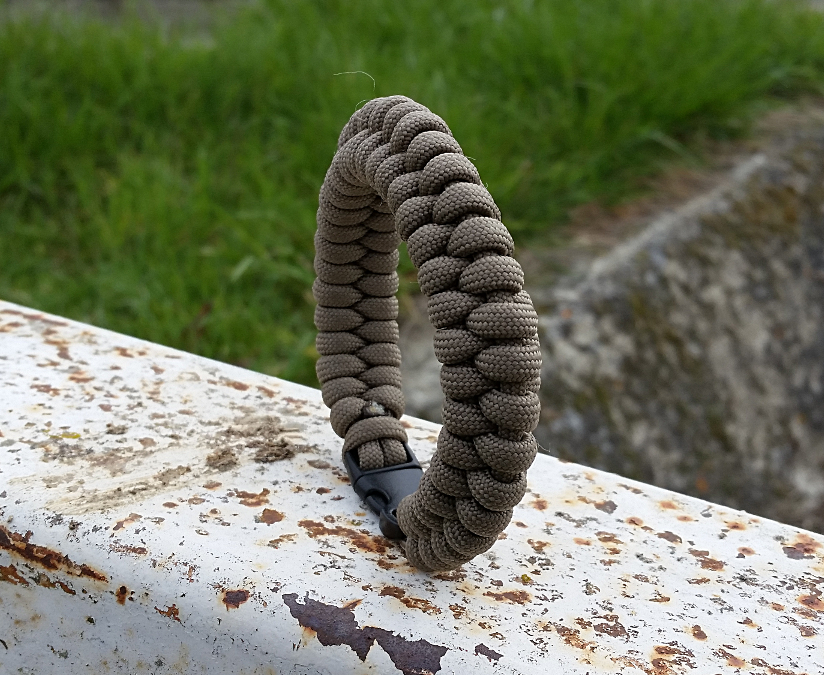 Survival bracelet with tying "Cobra Quick Deploy"